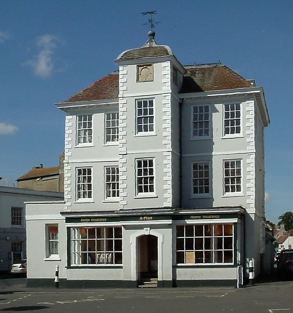 47 Market Square, Bicester, Oxfordshire: built in 1698 as a town house; now offices